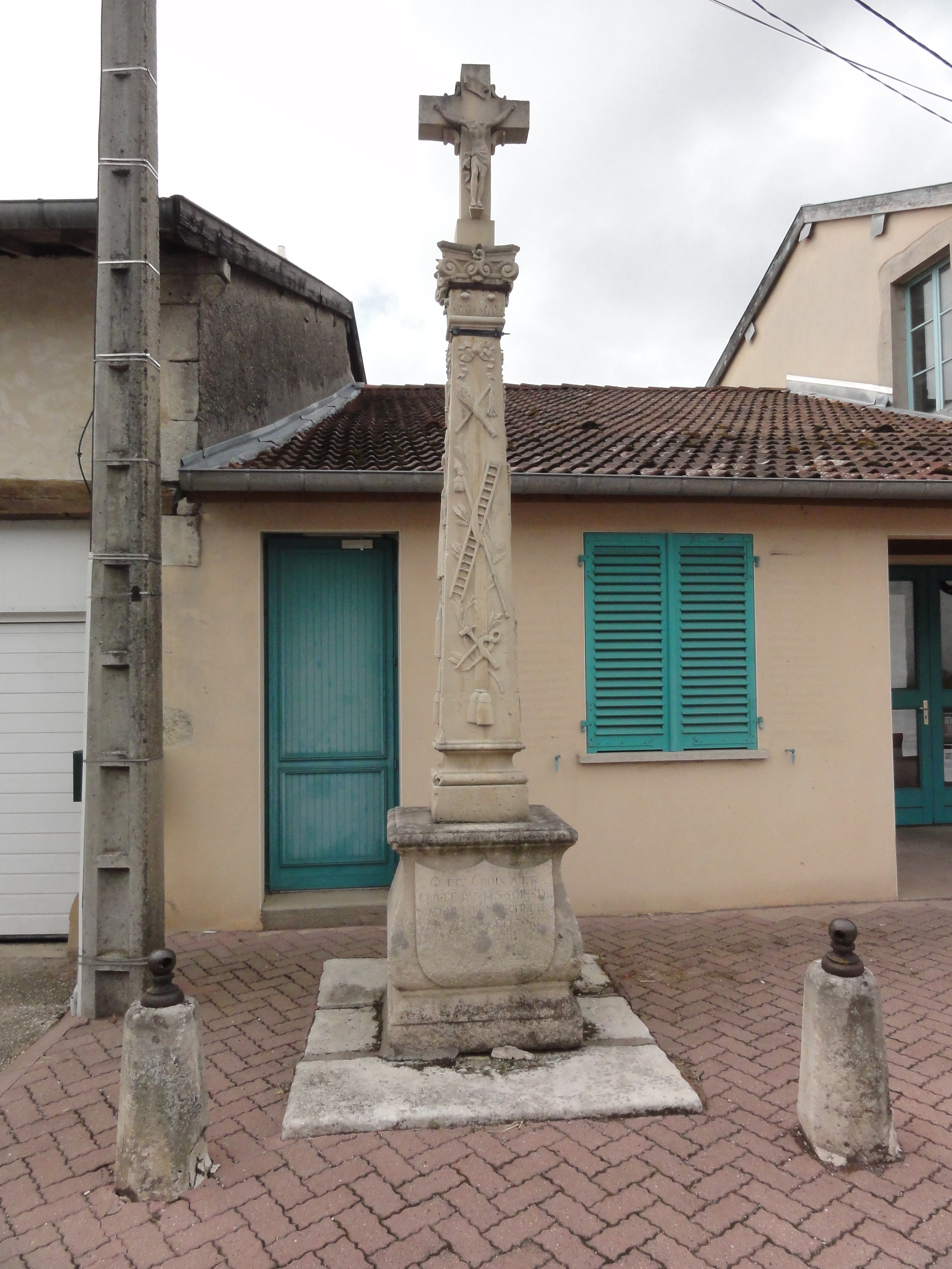 Boviolles (Meuse) croix de chemin devant mairie